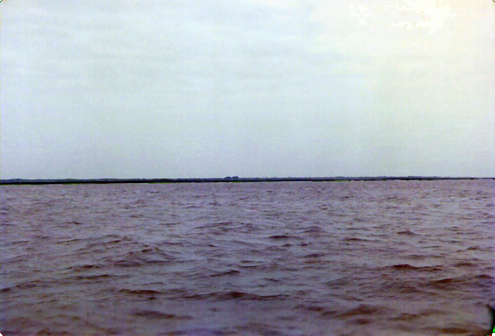 Piram Bet as seen from the boat approaching the island